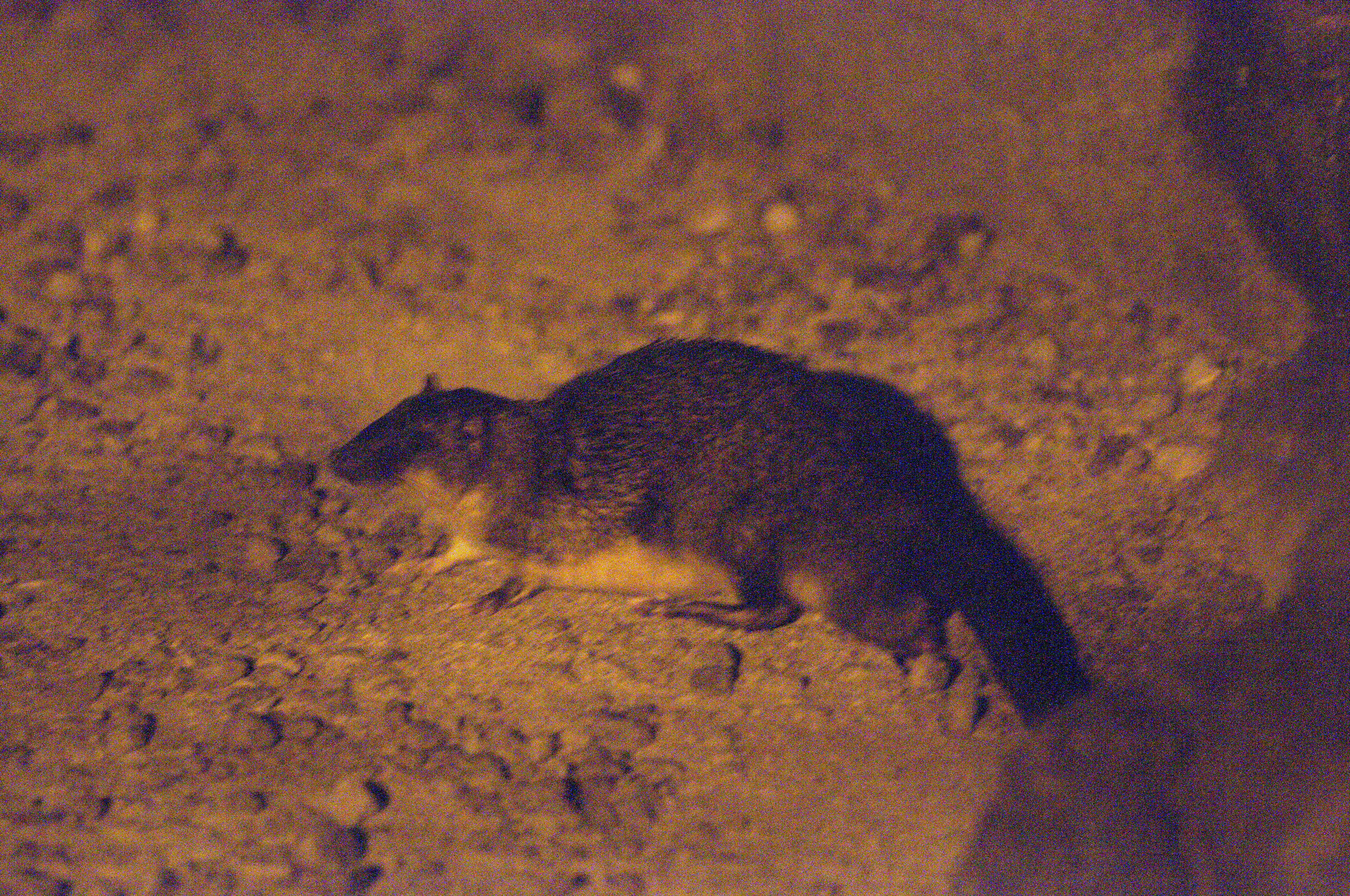 Front/side view of a Hydromys chrysogaster / Rakali / Water Rat on the pedestrian walkway of the St Kilda Breakwater (Victoria, Australia).